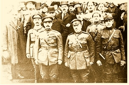 Delegation of Republic of Armenia in the USA, 1919 including Andranik Ozanyan, Hovhannes Kajaznouni